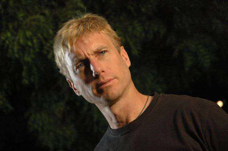 Robert Chapin in coordinating stunts for the 2008 Indian film, Nenu Meeku Telusa.